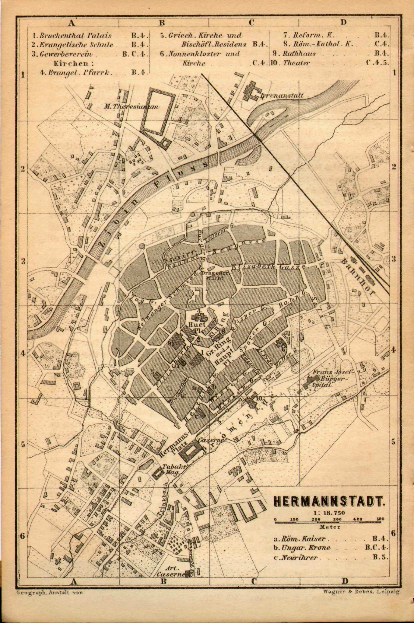 Map of Sibiu (Hermannstadt) in 1880, 10 x 15 in